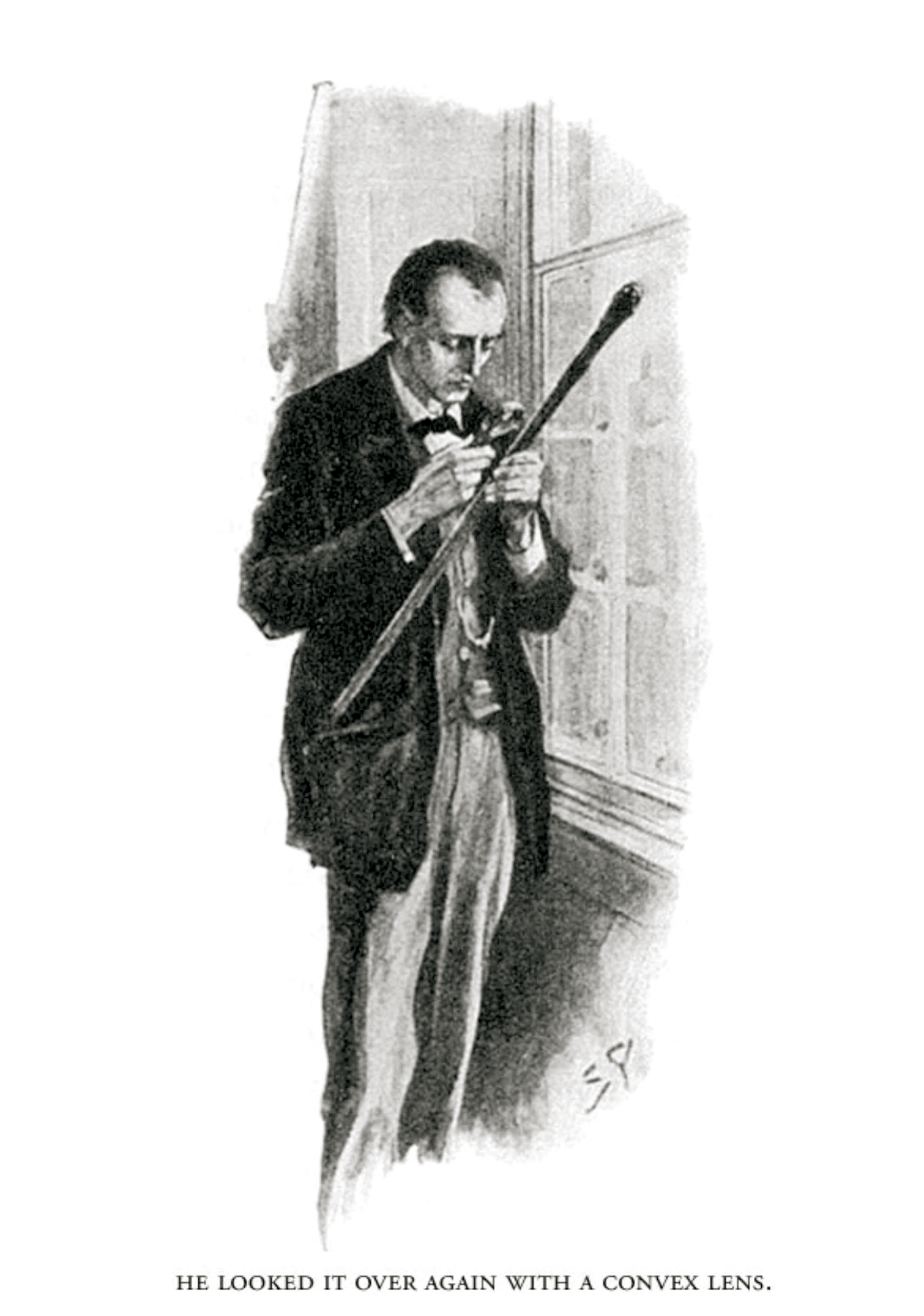 Illustration of the Sherlock Holmes adventure The Hound of the Baskervilles. Illustration appeared in The Strand Magazine in August, 1901. Original caption was "HE LOOKED IT OVER AGAIN WITH A CONVEX LENS."